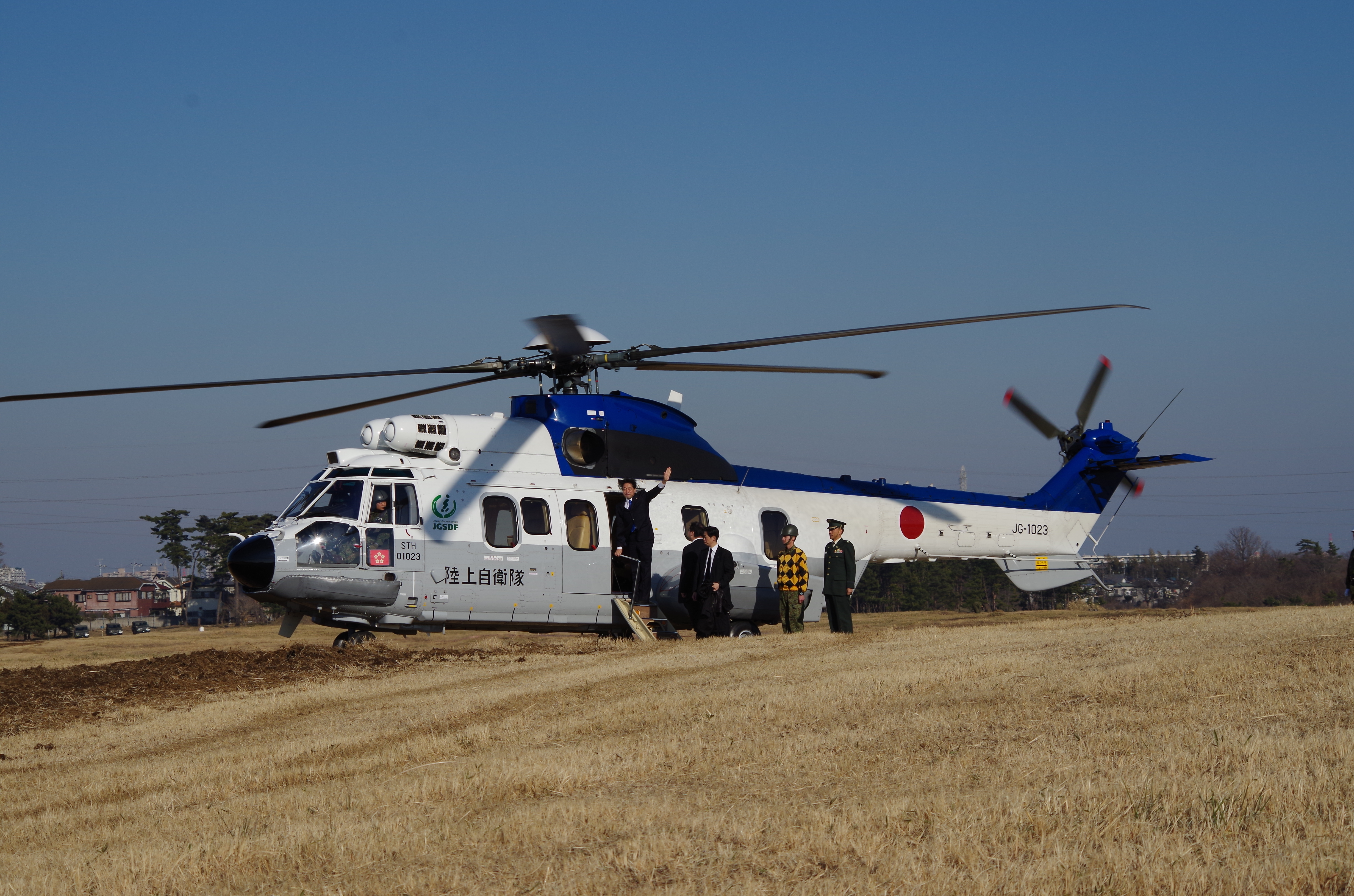 JGSDF Eurocopter EC 225 helicopter(S/N JG-1023),for Minister of Defense,Special Transportation Helicopter Unit / 1st Helicopter Brigade.Taken by Los688,in Narashino,Japan,at 12-Jan-2014,JGSDF 1st Airborne Brigade 2014 first drop manuver.PD-self ユーロコプターEC225 2014年01月12日、第一空挺団降下訓練始め。第1ヘリコプター団特別輸送ヘリコプター隊、防衛大臣輸送用（機首に5つの桜星、中央の手を挙げている人物が防衛大臣 小野寺五典）、習志野演習場にて撮影。